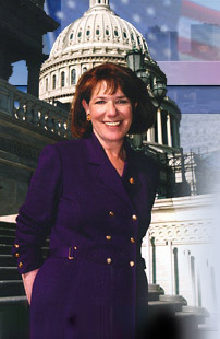 Rep. Susan Davis source